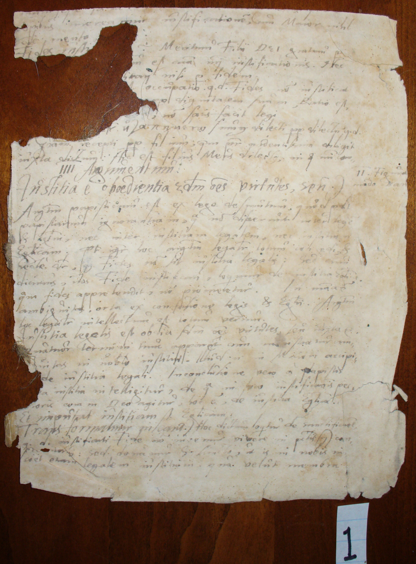 This is page one of a collection of handwritten pages that were found in the binding of a copy of a Loci Communes that was published in Germany in 1595 by Theodosius Fabricius and printed by Paul Donat. The language is the Latin of the Renaissance (called "Neo-Latin") and uses many abbreviations and diacritical marks peculiar to that time. Although this page has not been translated, its subject matter appears to pertain to that of the Loci Communes.